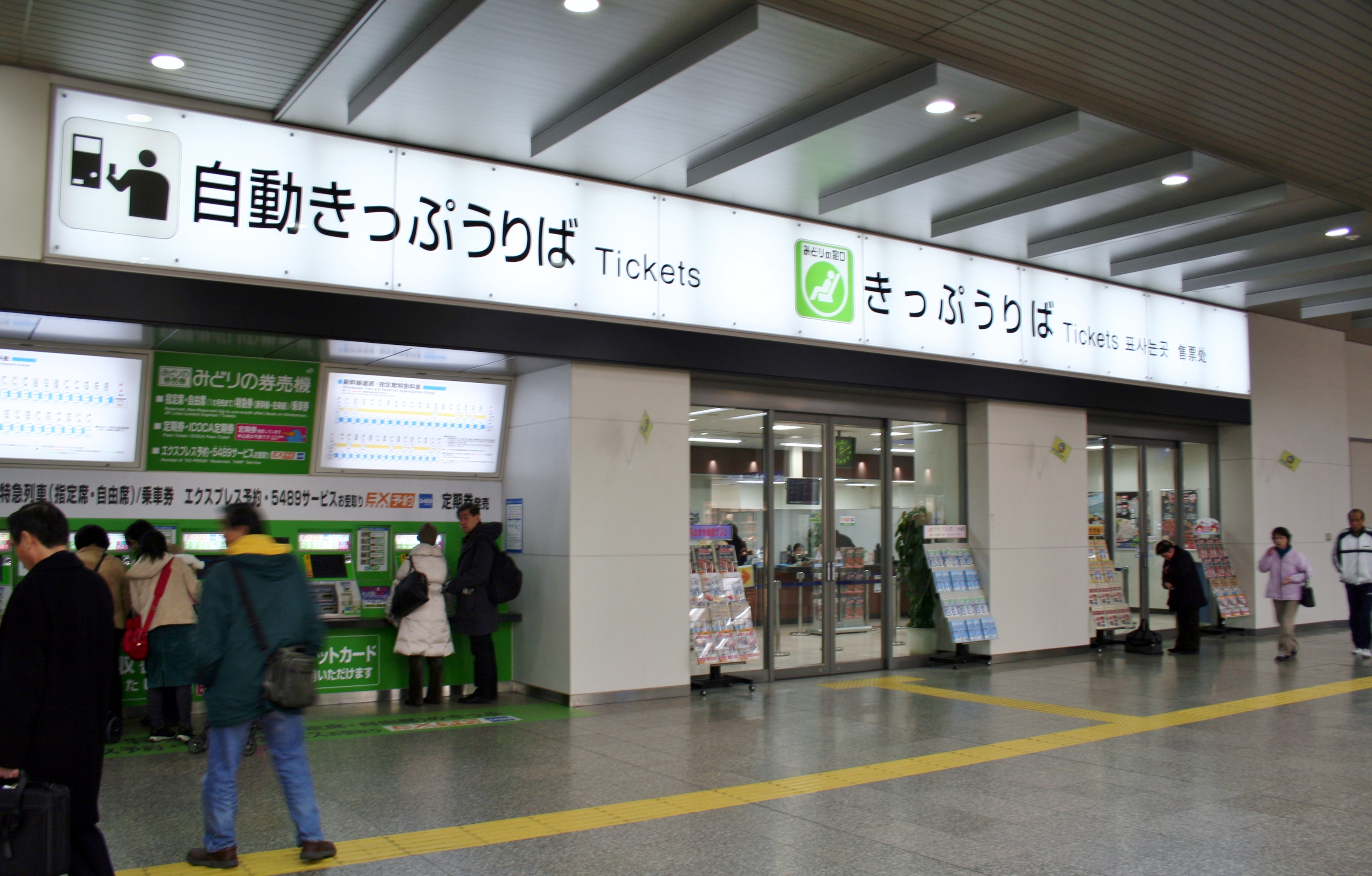 The JR ticket office at Himeji Station